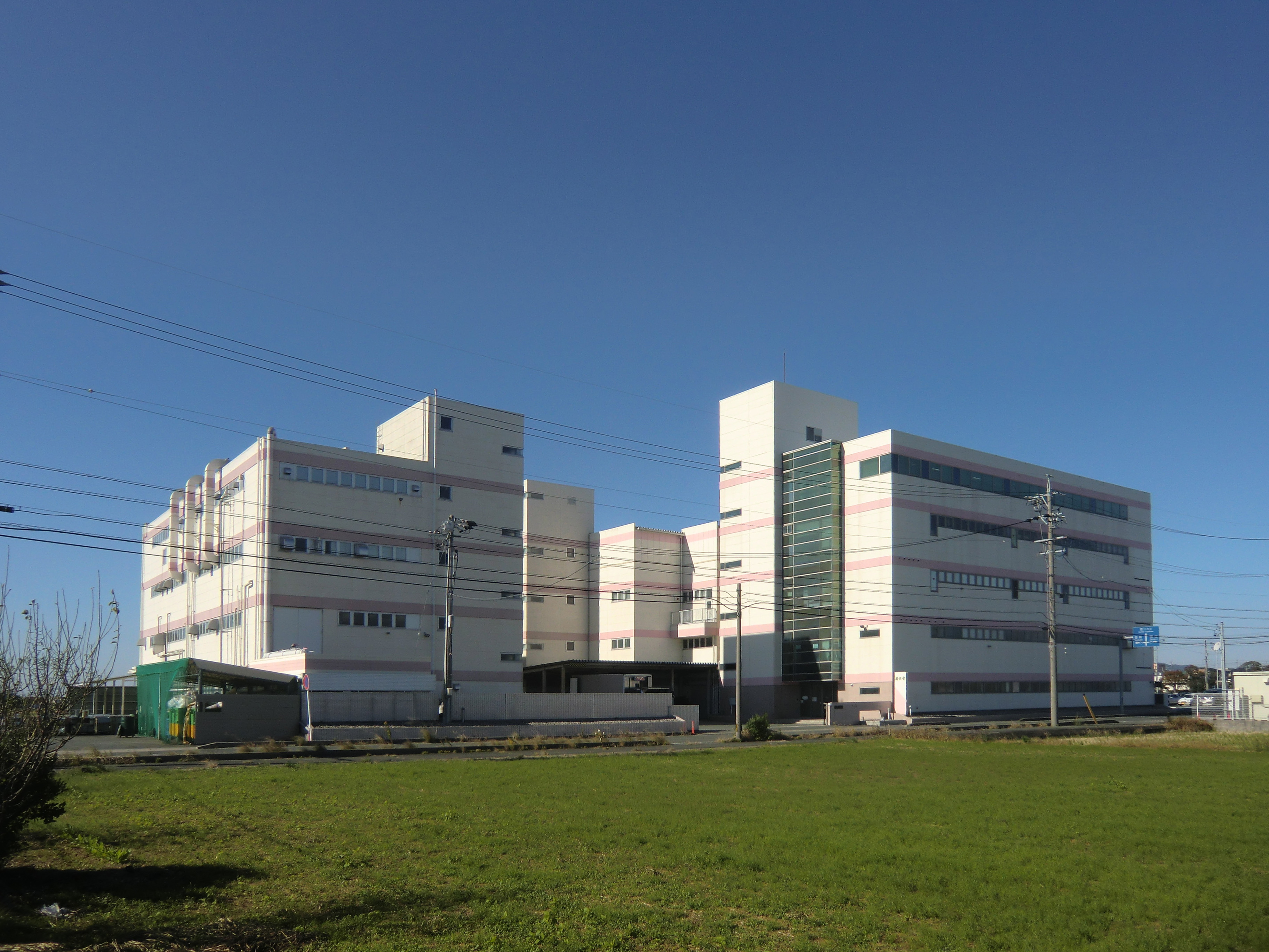 The headquarters of Kagetsudo (香月堂), located at Nishijima-cho, Toyokawa, Aichi, Japan